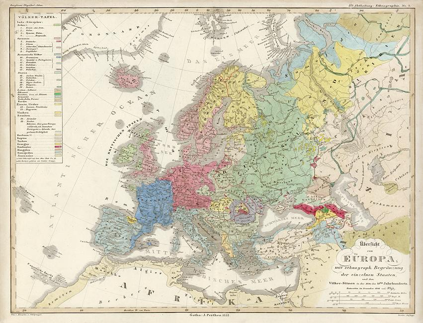 "Uberlicht von Europa mit Ethnograph ..." (Ethnographic map of Europe) published in Dr. Heinrich Berghaus' Physikalischer Atlas, Gotha, 1855 (map dated 1855.) Fine steel engraved map with original hand colour, coded to the key upper left. Slight age browning around edges, crease and closed tear just to neatline upper right, otherwise good condition with plate mark and good margins. Centre-fold as published. Size 42 x 31.5 cms. Ref E3789